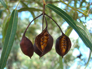 Brachychiton rupestris fruits photograhed at Goondiwindi Botanic Gardens, Queensland, Australia